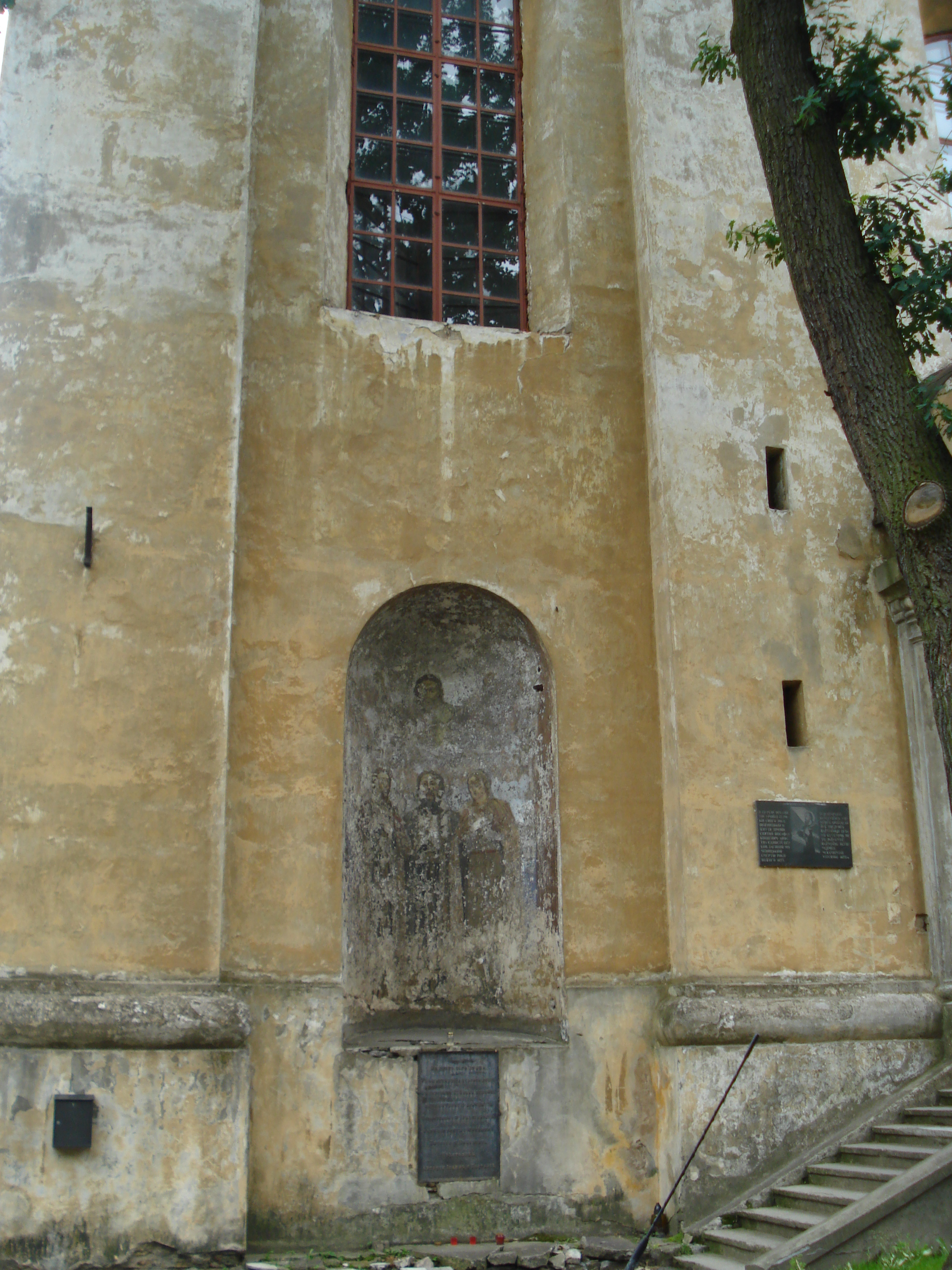 Holy Trinity Greek Orthodox church in Vilnius. Memorial tablet in honour of Three martyrs of Vilnius